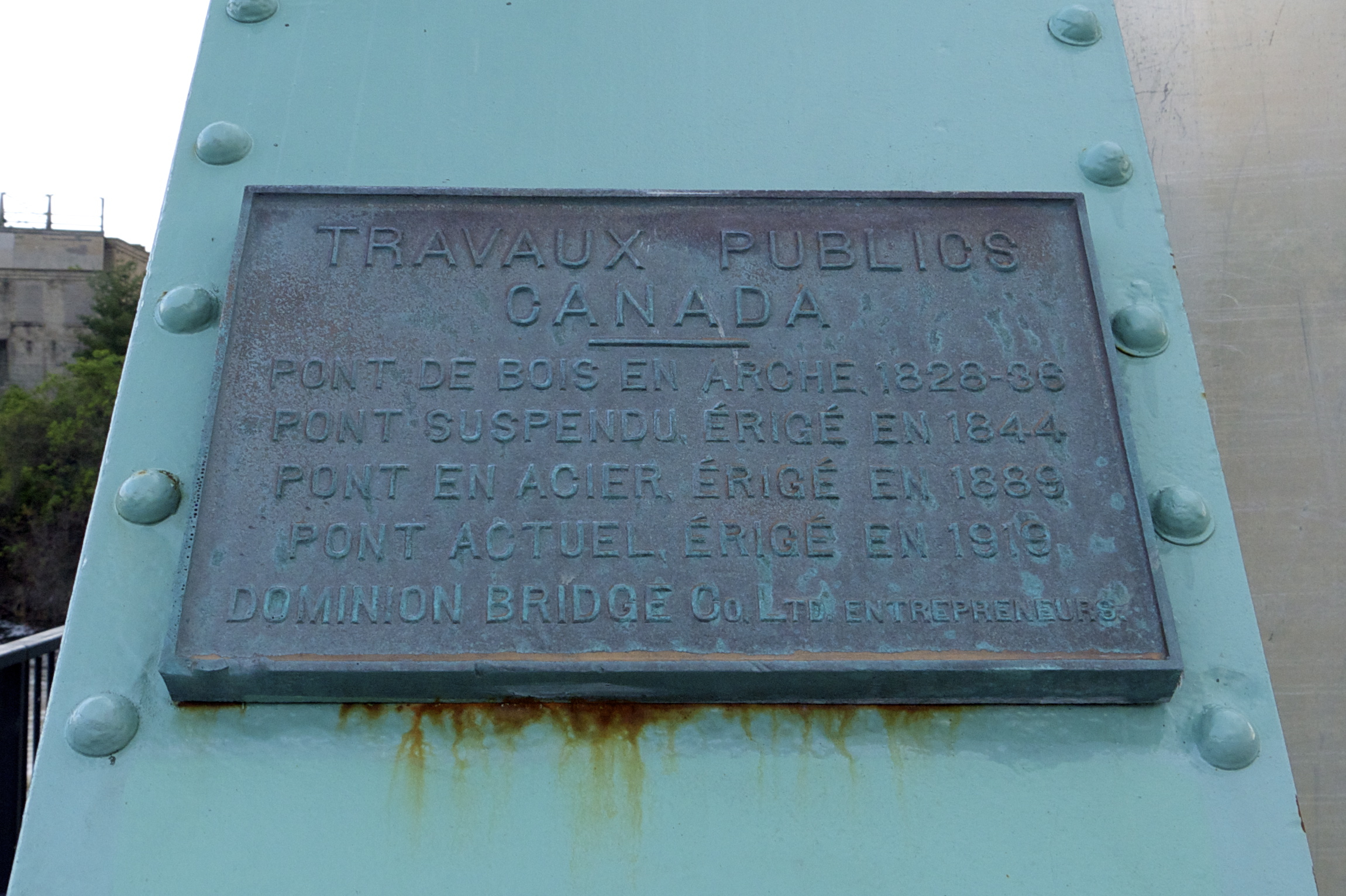 Plaque Chaudière Bridge across Ottawa River, in Ottawa, Ontario.